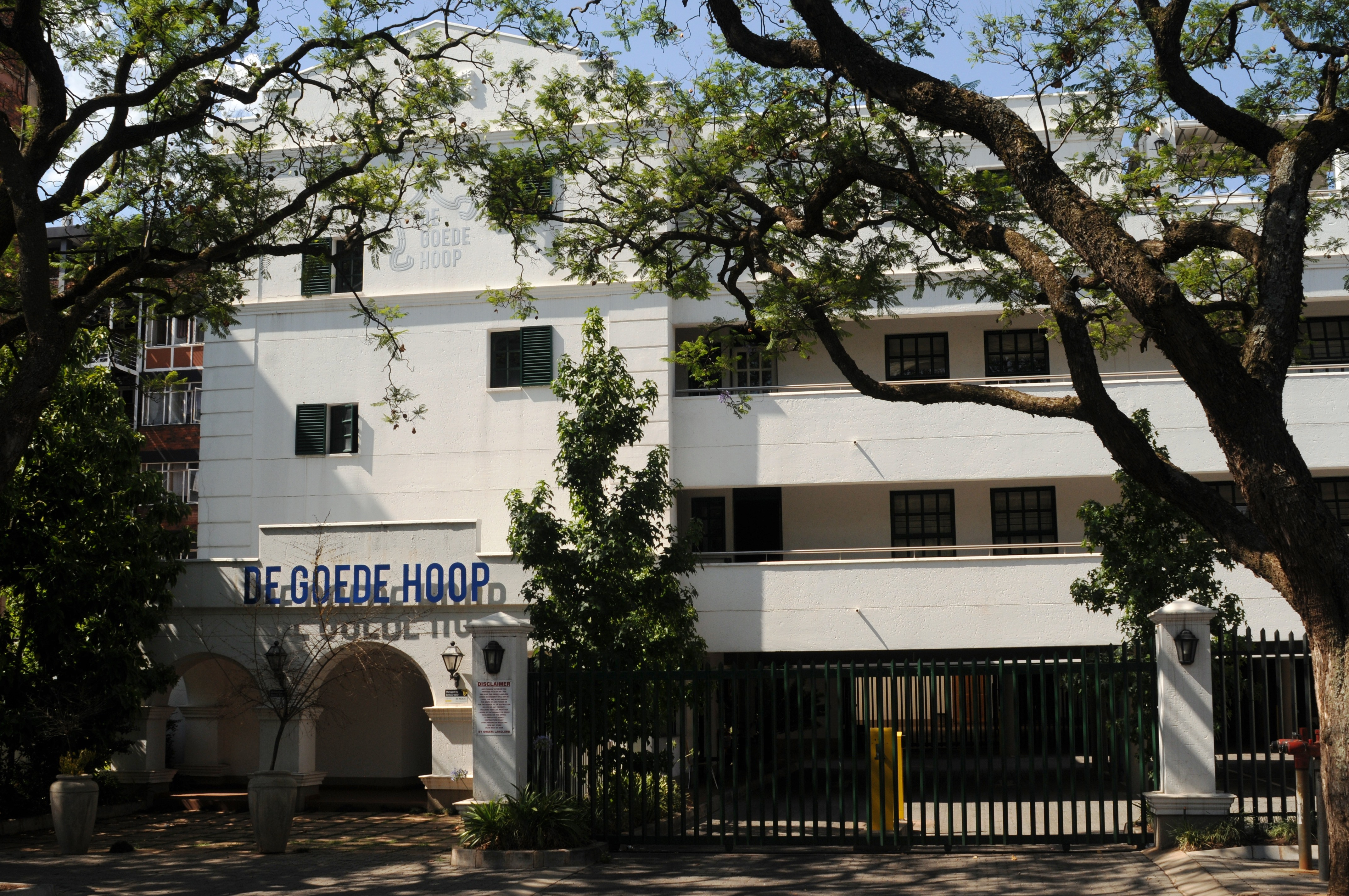 De Goede Hoop residence, Reitz street, Sunnyside